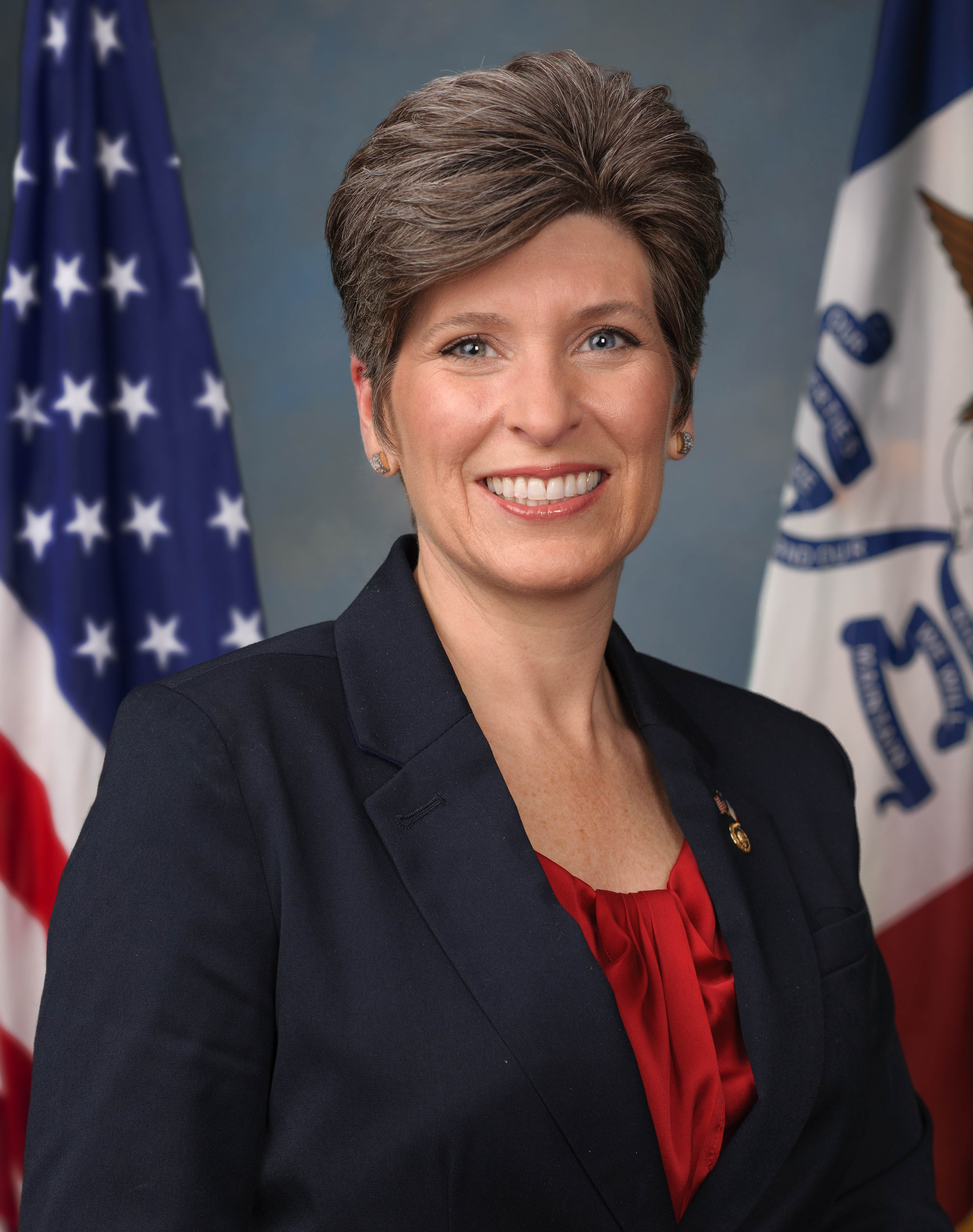 Joni Ernst, United States Senator from Iowa